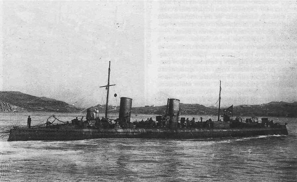 The Imperial Russian destroyer Leytenant Burakov (former Chinese Hai Hua), 1904.